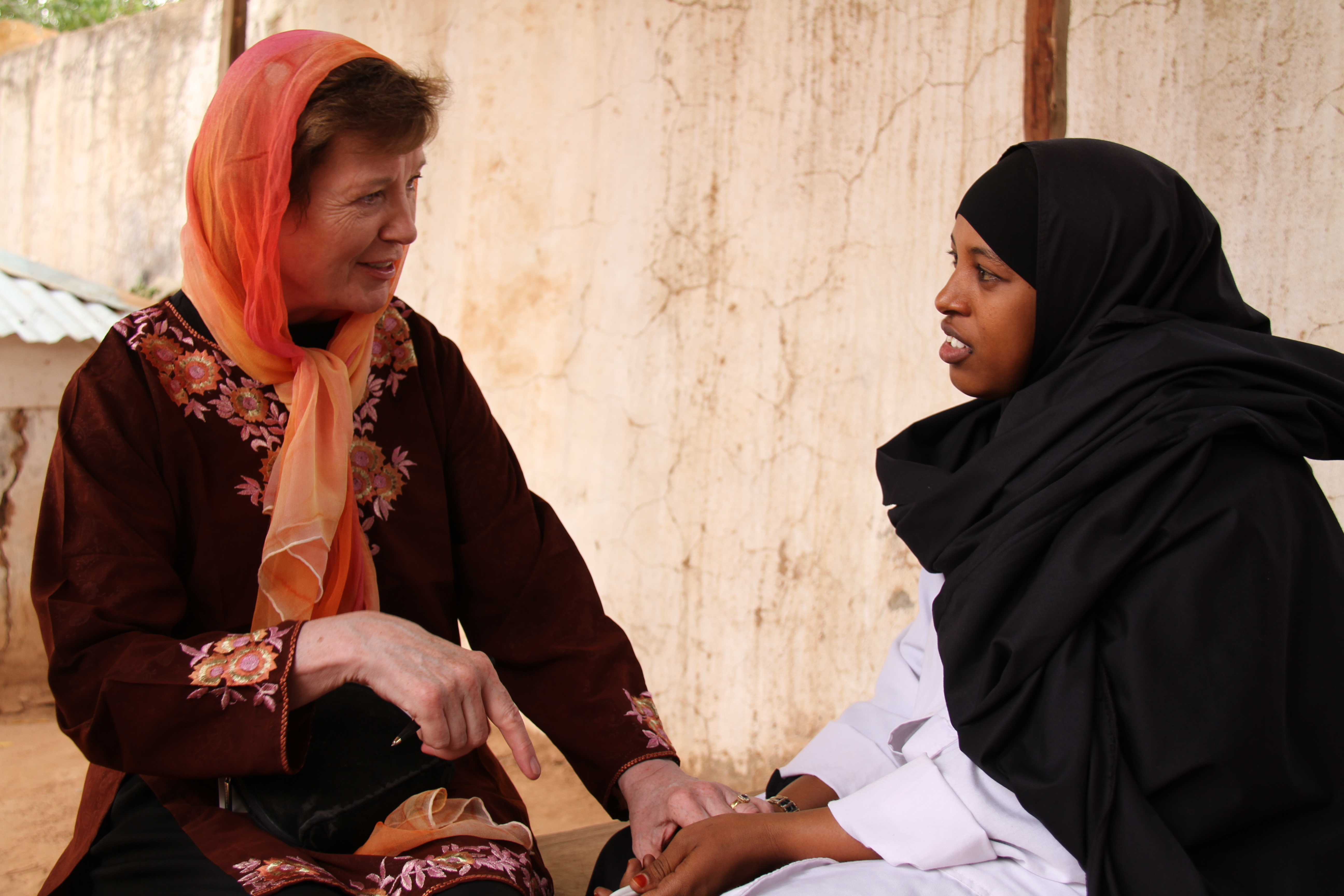 Mary Robinson with healthworker Nadhifa Ibrahim Mohamed. She has worked in Trócaire's Dollow Health Centre for 3 years and is a certified midwife, Dollow, Somalia. Jennifer O'Gorman/July 2011/Dollow, Somalia